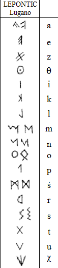 Lepontic alphabet, excerpt from File:Venetic Raetic Camunic Lepontic alphabets.png)